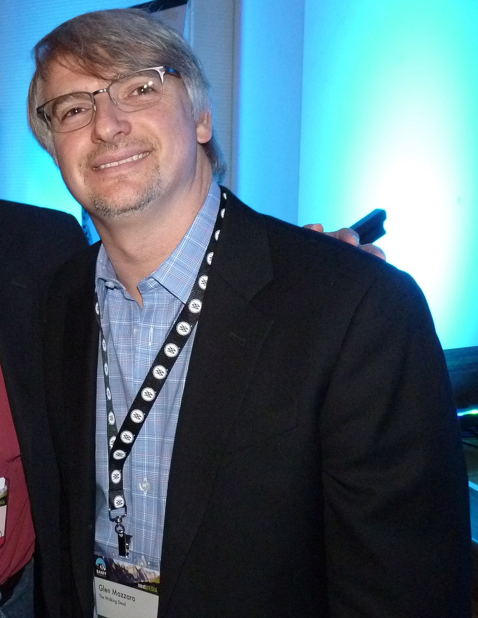 Master class with Glen Mazzara (Showrunner & Writer of The Walking Dead) at Banff World Media Festival 2012